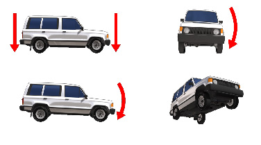 Modal movements